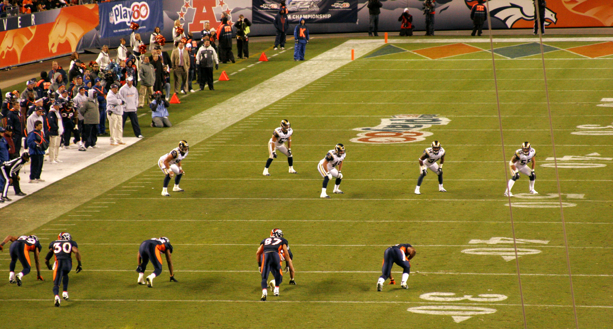 The Denver Broncos attempting an onside kick against the St. Louis Rams on 11-28-2010